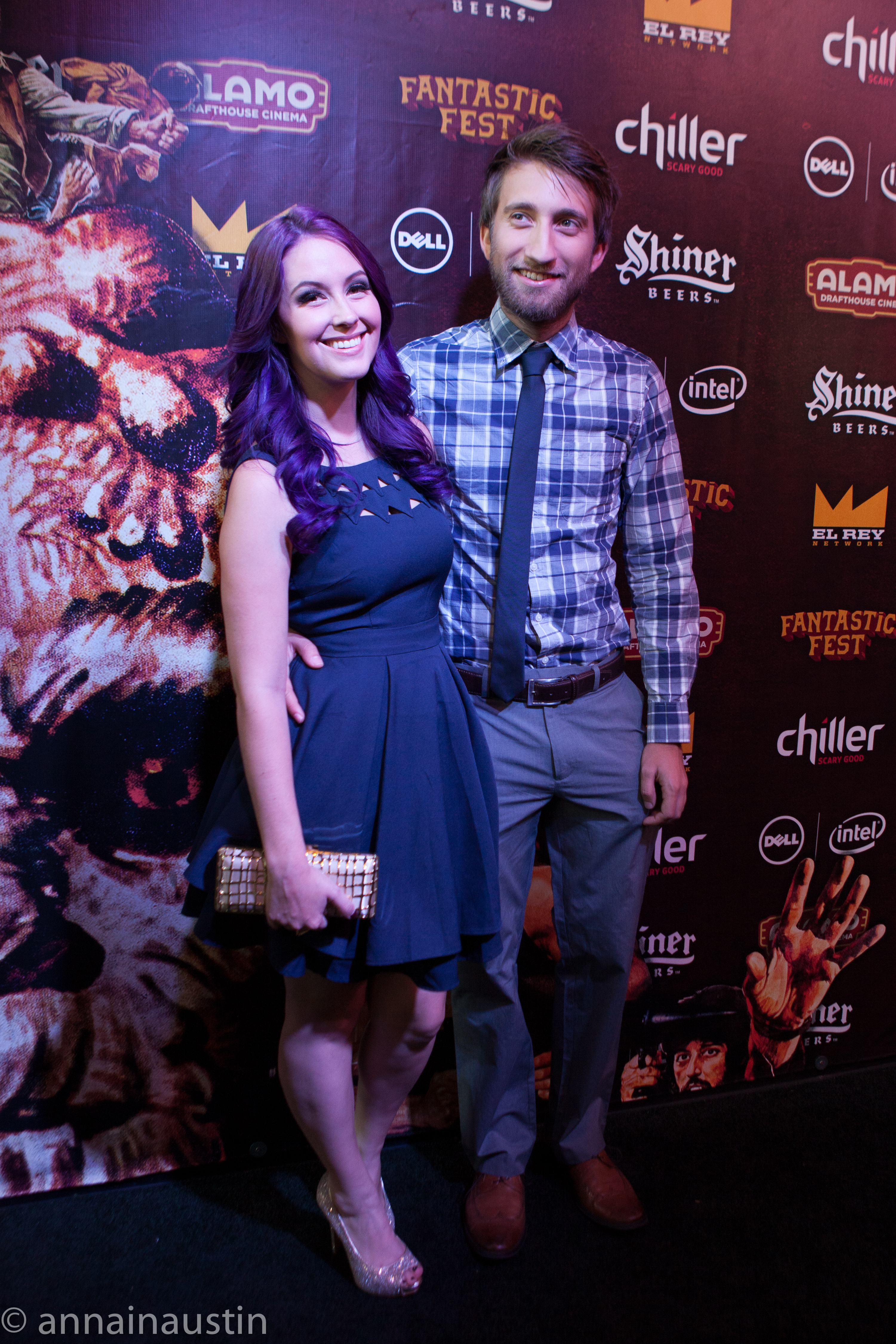 Meg Turney and Gavin Free on the red carpet at the Lazer Team premiere at Fantastic Fest 2015.